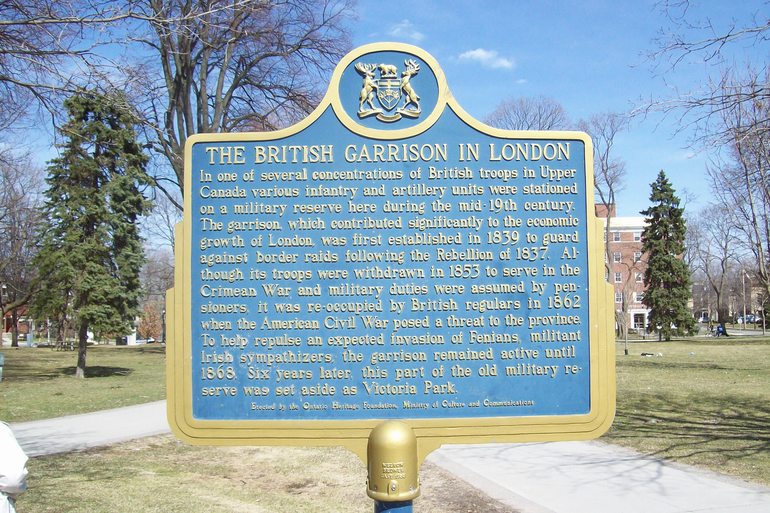 Victoria Park London Ontario Canada. Home of Sunfest.